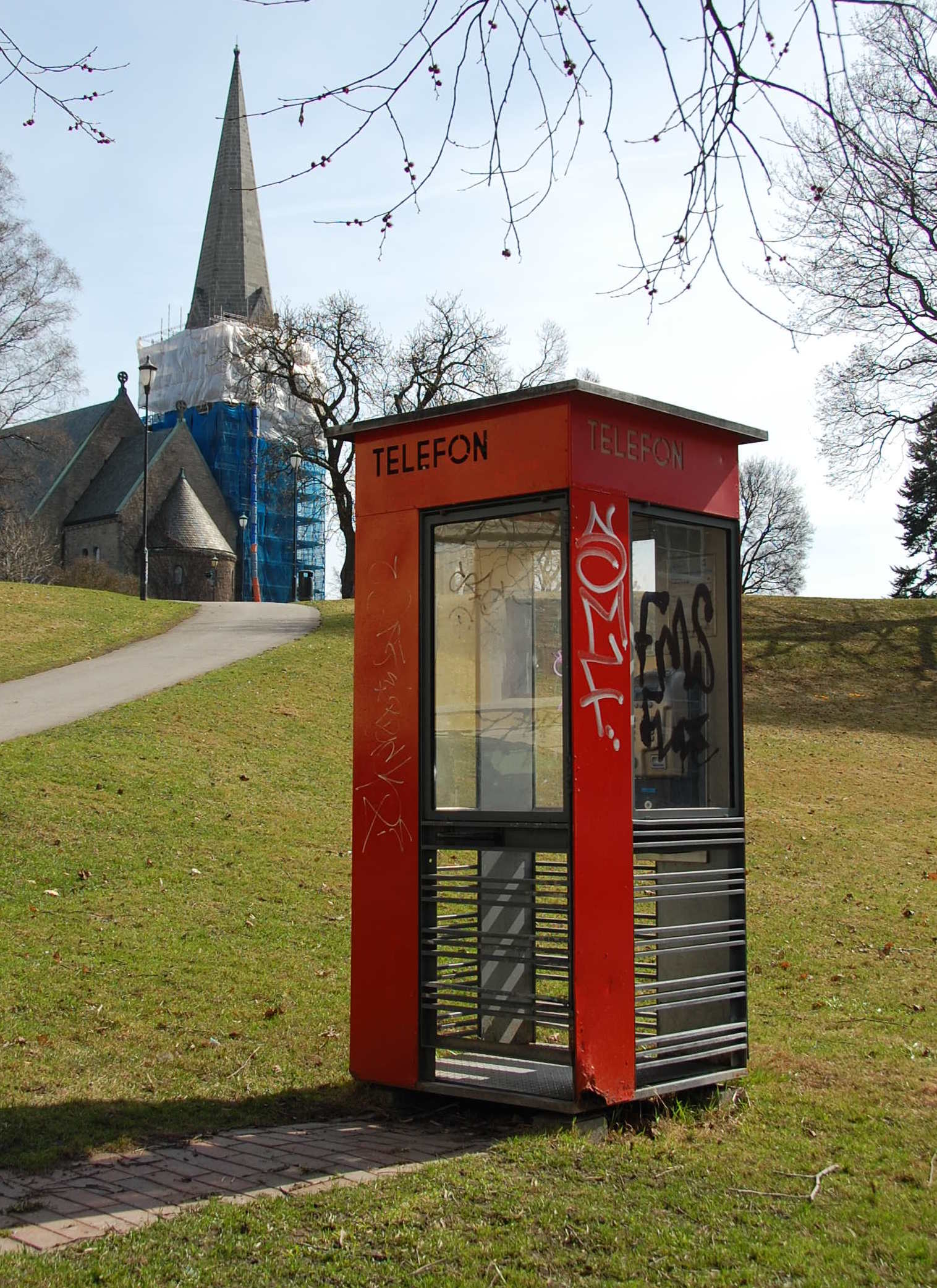 Norwegian phoneboth designed by Georg Fredrik Fasting at Vålerenga in Oslo.